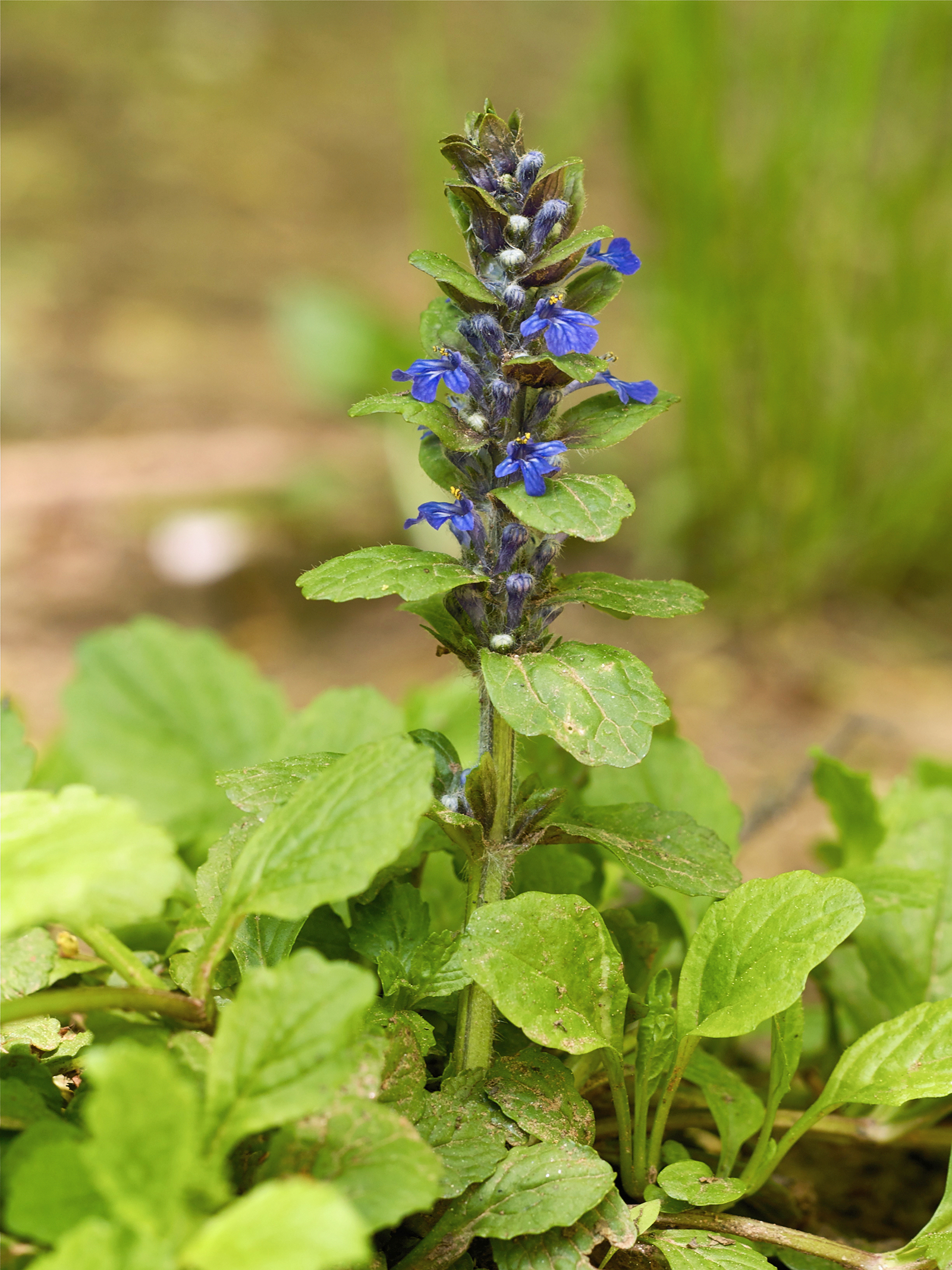 Common bugle (Ajuga reptans), Chemnitz, Germany